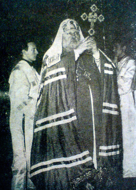 Pimen, patriarch of Moscow and all Russia